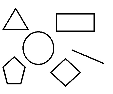 geometrical primitives